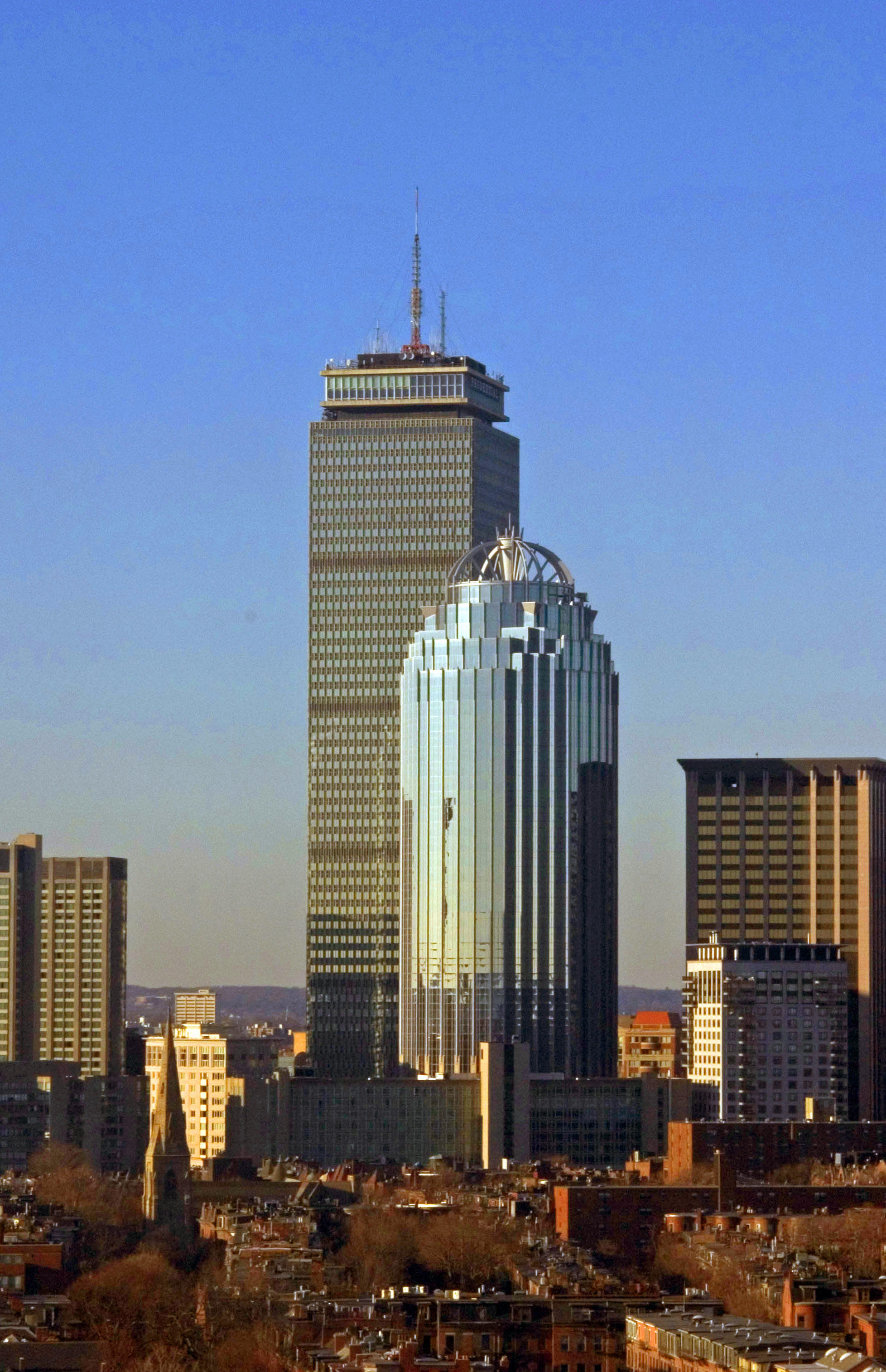 A retouched version of Dragoonkain's public-domain Image:CRW 1473.jpg -- I straightened the buildings (and subsequently cropped slightly), adjusted brightness and levels, sharpened, and tweaked colors. (It's amazing what can be done in Photoshop!)